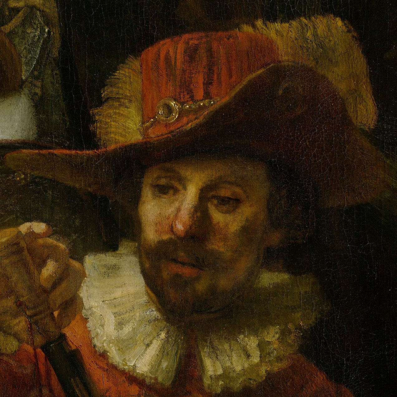 Detail from Rembrandt's Night Watch. Shown is Jan van der Heede.